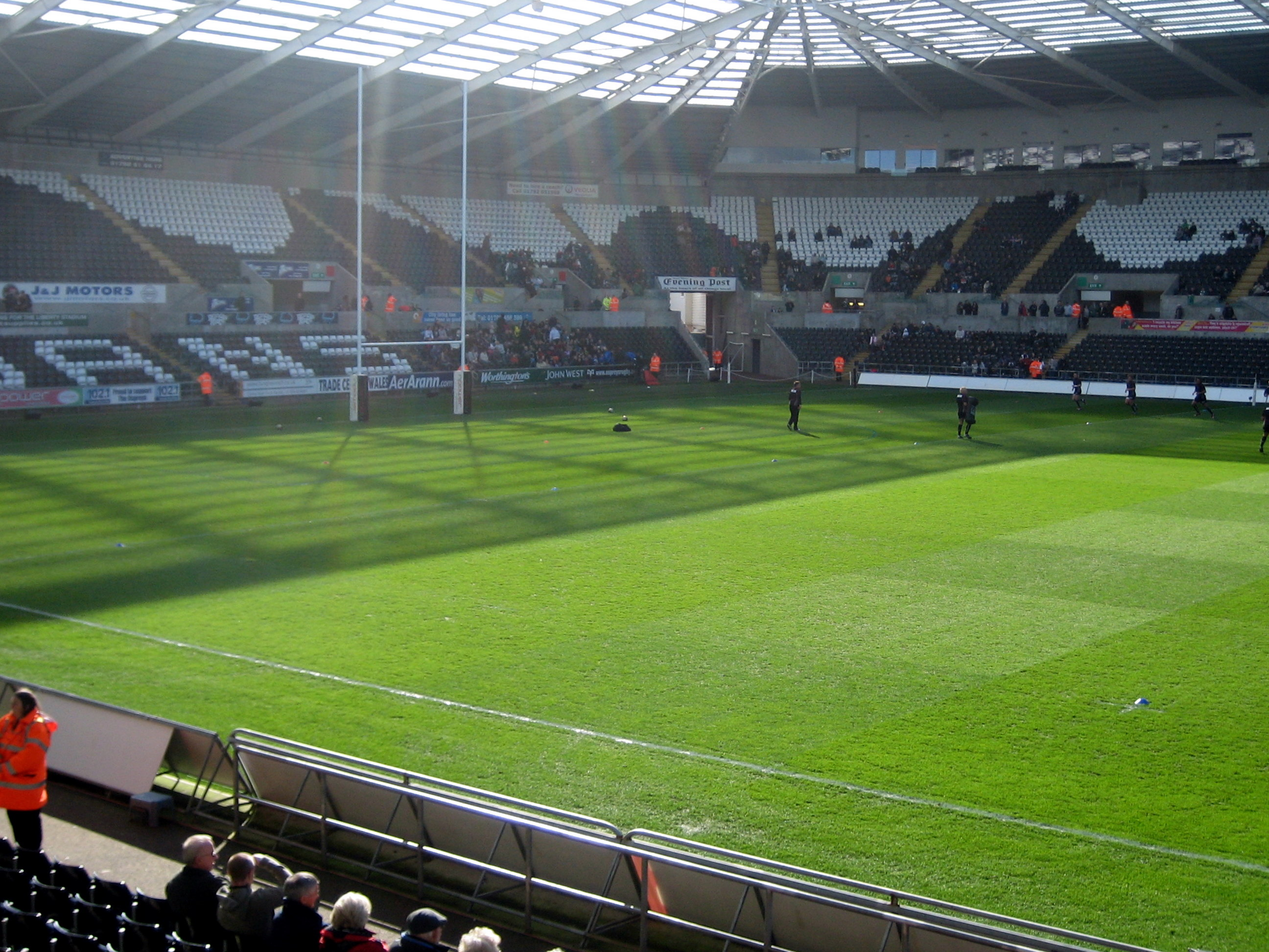 Lovely spring-like day at the Liberty Stadium.